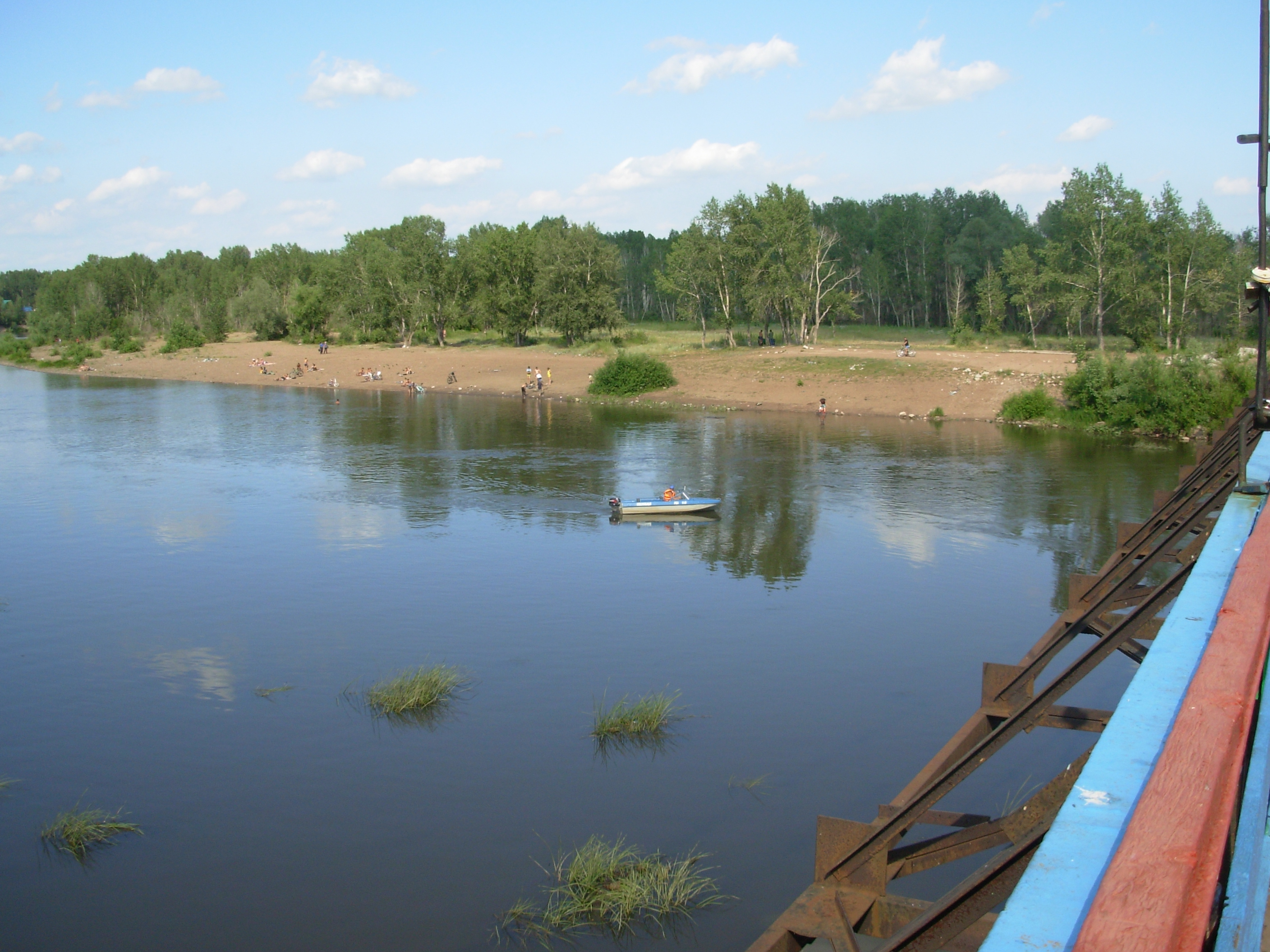 river